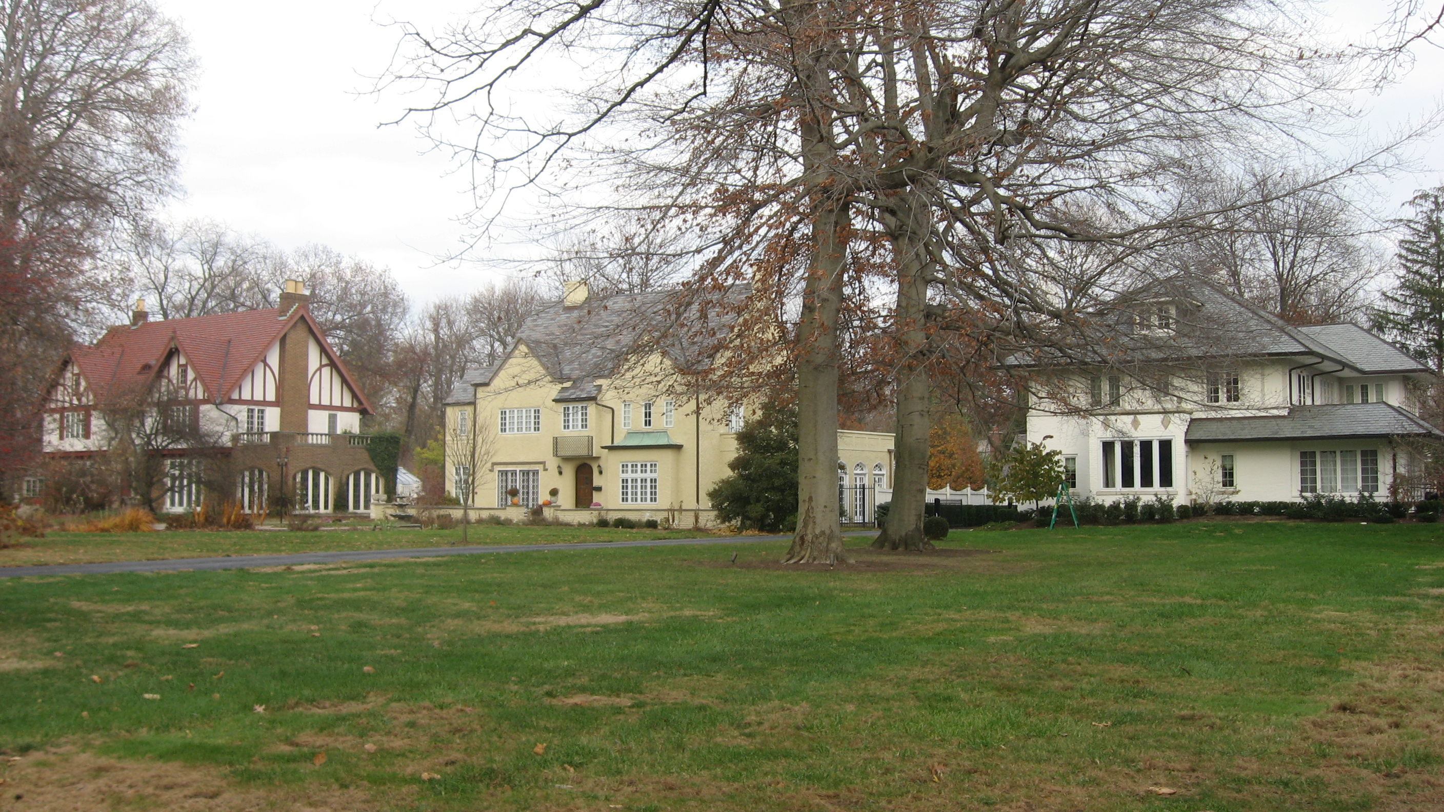 Houses on the eastern side of the 4400 block of N. Meridian Street in Indianapolis, Indiana, United States. This block of Meridian is part of the North Meridian Street Historic District, a historic district that is listed on the National Register of Historic Places.